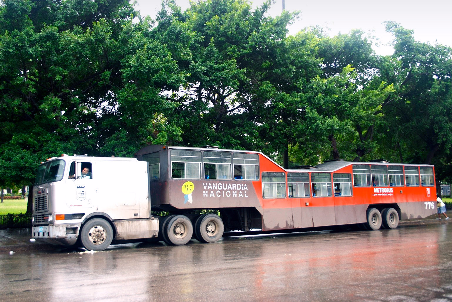 Camel bus near the Capitolium in Havana, Cuba.